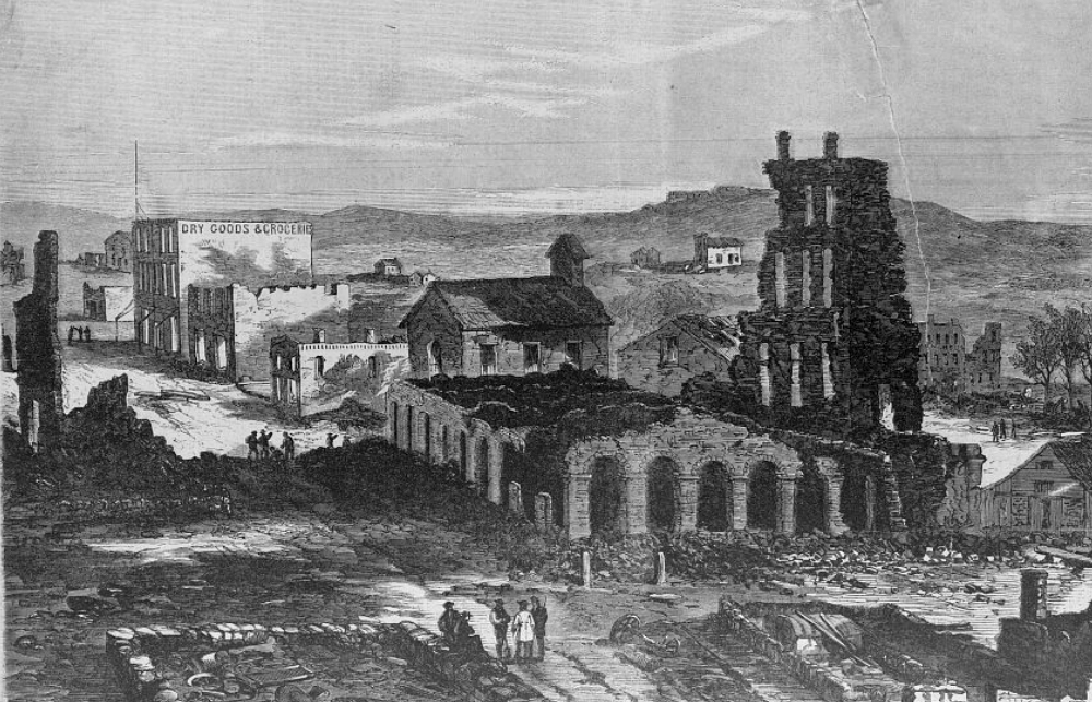 The destruction of the city of Lawrence, Kansas, and the massacre of its inhabitants by the Rebel guerrillas, August 21, 1863